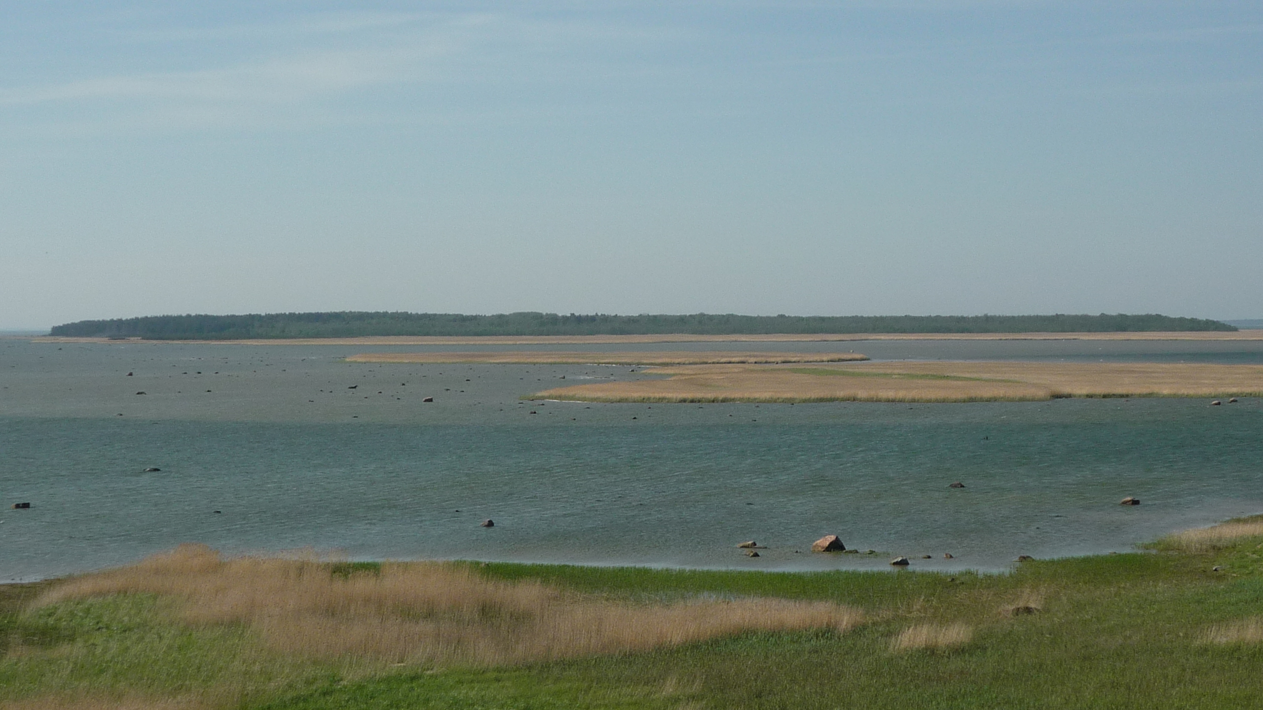 Tauksi island on the horizon. View from south. Matsalu national park. Ridala parish, Lääne county, Estonia.